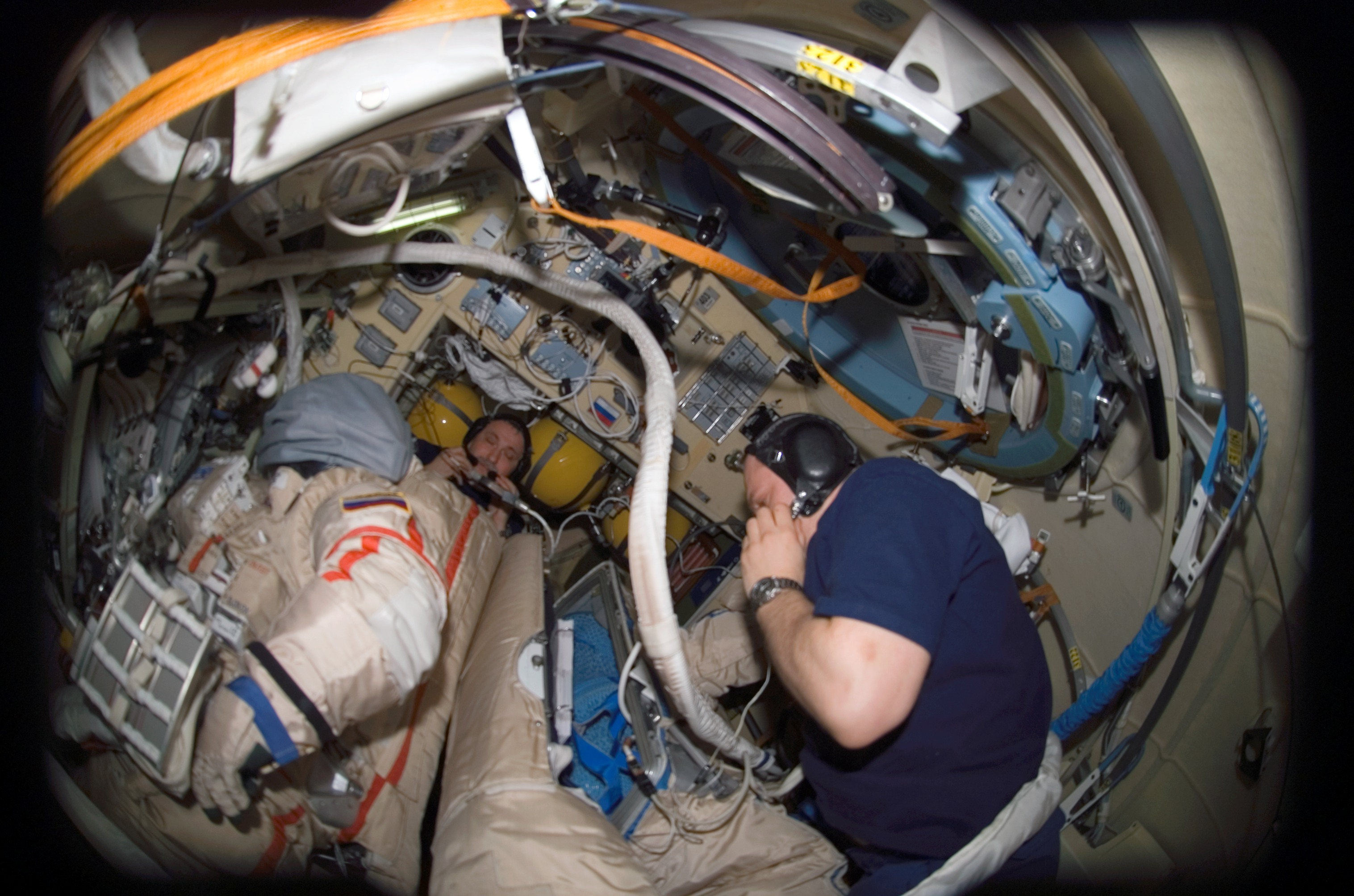 Cosmonauts Fyodor Yurchikhin (background) and Oleg Kotov, Expedition 15 commander and flight engineer, respectively, work with Russian Orlan spacesuits in the Pirs Docking Compartment of the International Space Station.